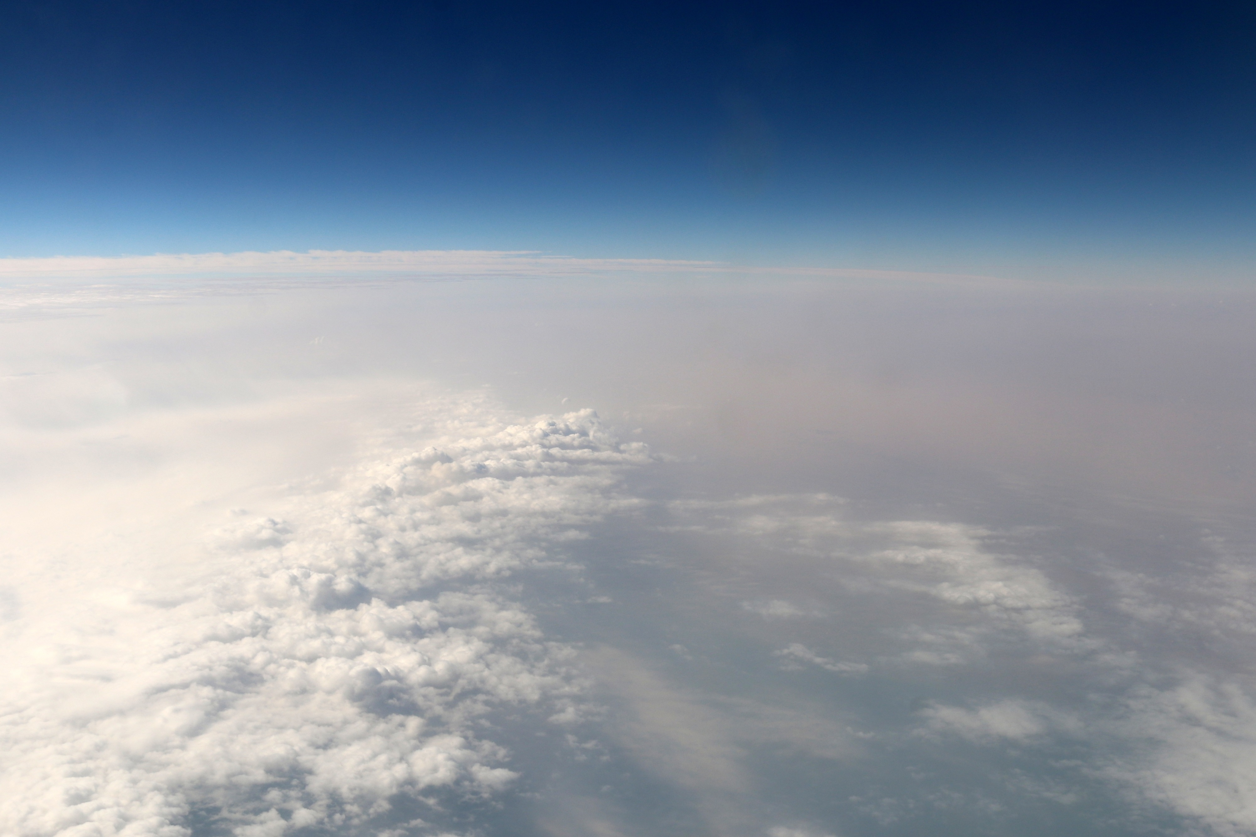 Clouds Over the Persian Gulf